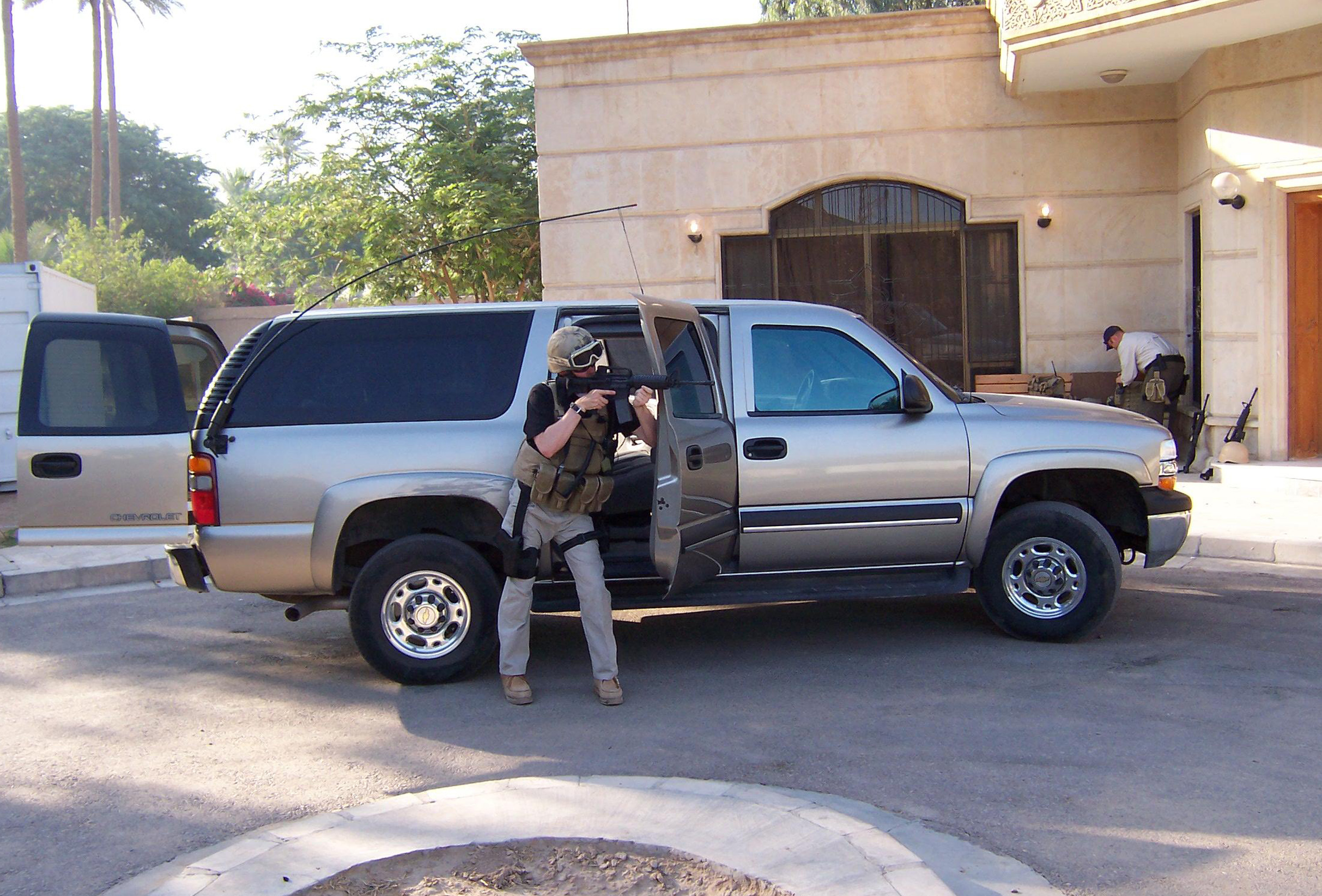 US State Department contract security, International (Green) Zone, Baghdad, Iraq.Contract security, Baghdad